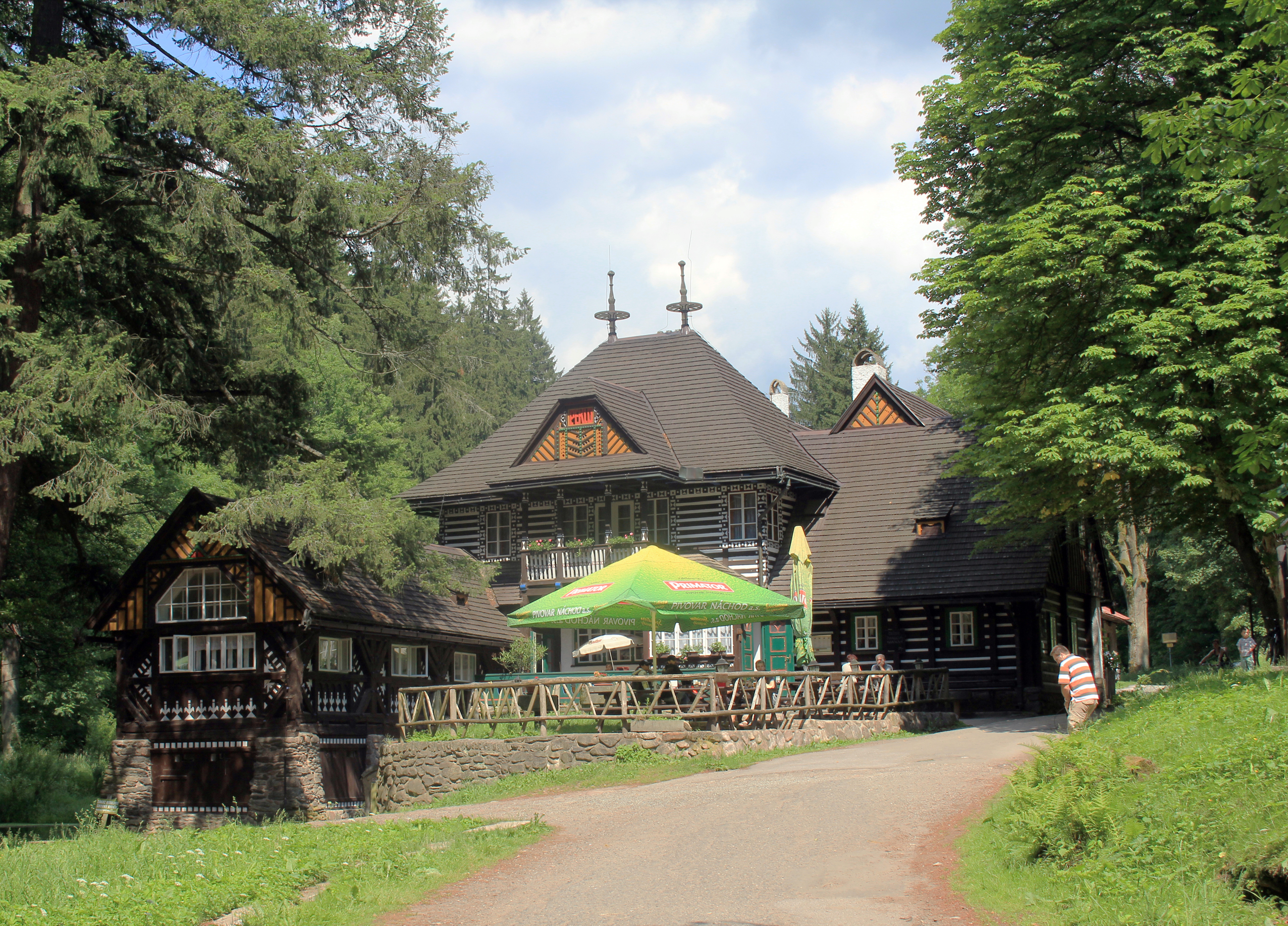 Restaurant in small village Peklo in Metuje river valley between Náchod and Nové Město nad Metují, eastern Bohemia, Czech Republic